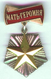 Soviet "Mother hero" order (awarded to mothers with 10 children).